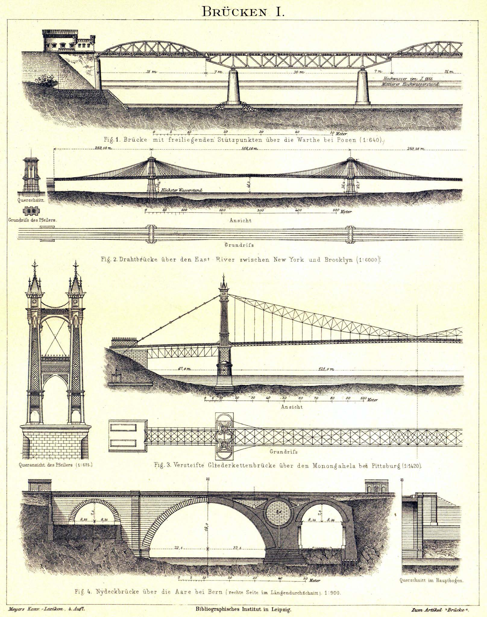 bridges I